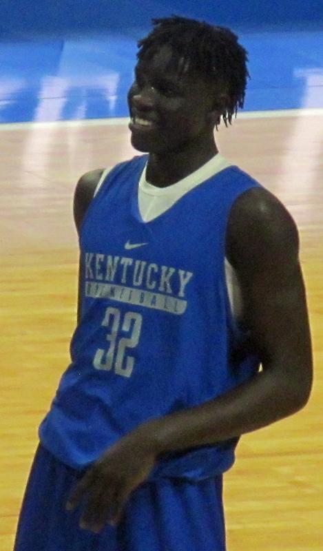 Gabriel at Kentucky's 2016 Blue-White scrimmage